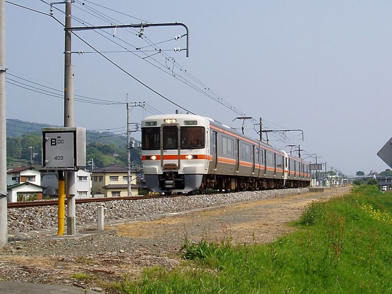 Central Japan Railway Company, EMU Type 313 Between Kami-oi Sta. and Sagami-kaneko Sta.